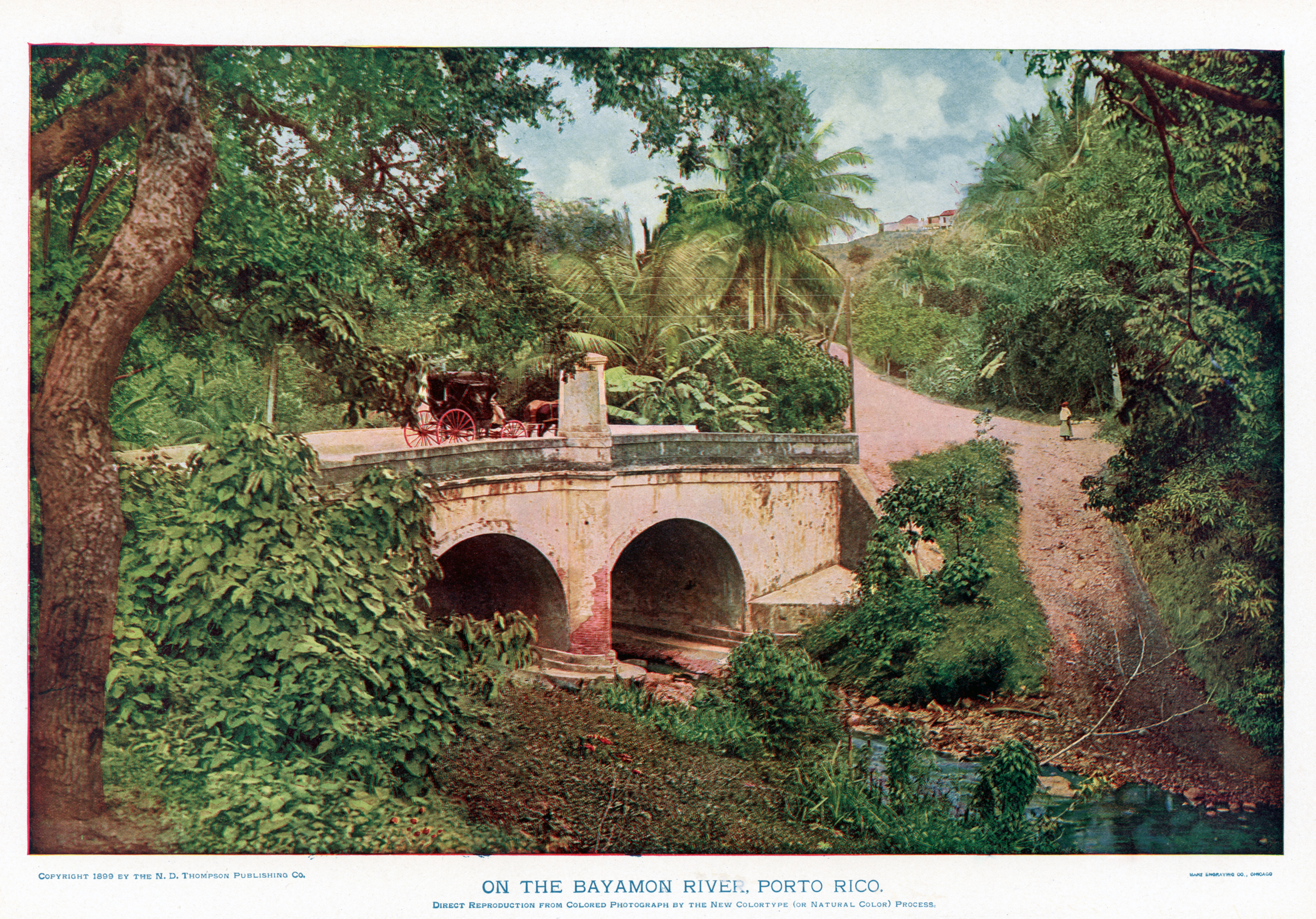 Built in 1856 as part of the Central Highway between San Juan and Ponce, it crosses Rio Cañas. Still in existence. Lithograph published in Volume 1, opp. page 193 of Our Islands and their People by Jose de Olivares